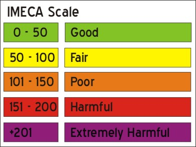 IMECA, Indice Metropolitano para la Calidad del Aire (Metropolitan Index for Air Quality), issued by the Mexico City Secretary of Environment.